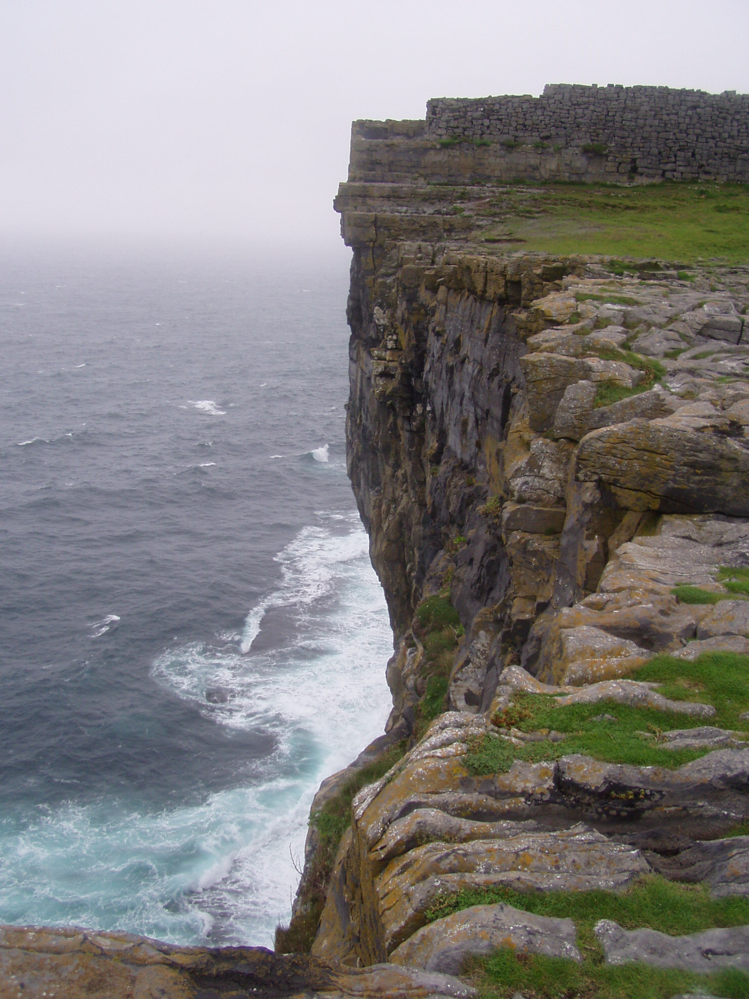 Aran Islands (Inishmore island in particular) in Galway Bay, off the west coast of Ireland. The Iron Age fortress known as Dún Aengus.